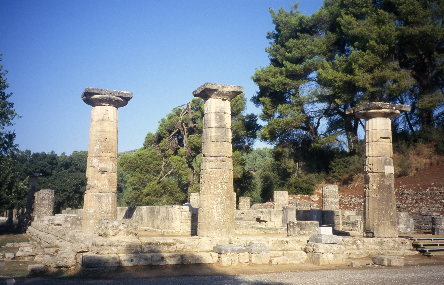 Temple of Hera, Olympia